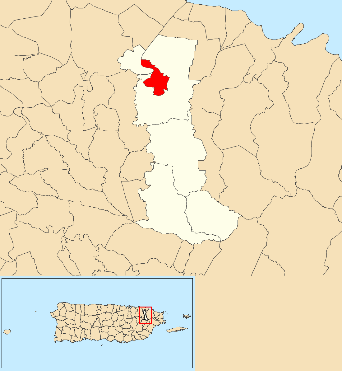 Canóvanas barrio-pueblo, Canóvanas, Puerto Rico locator map